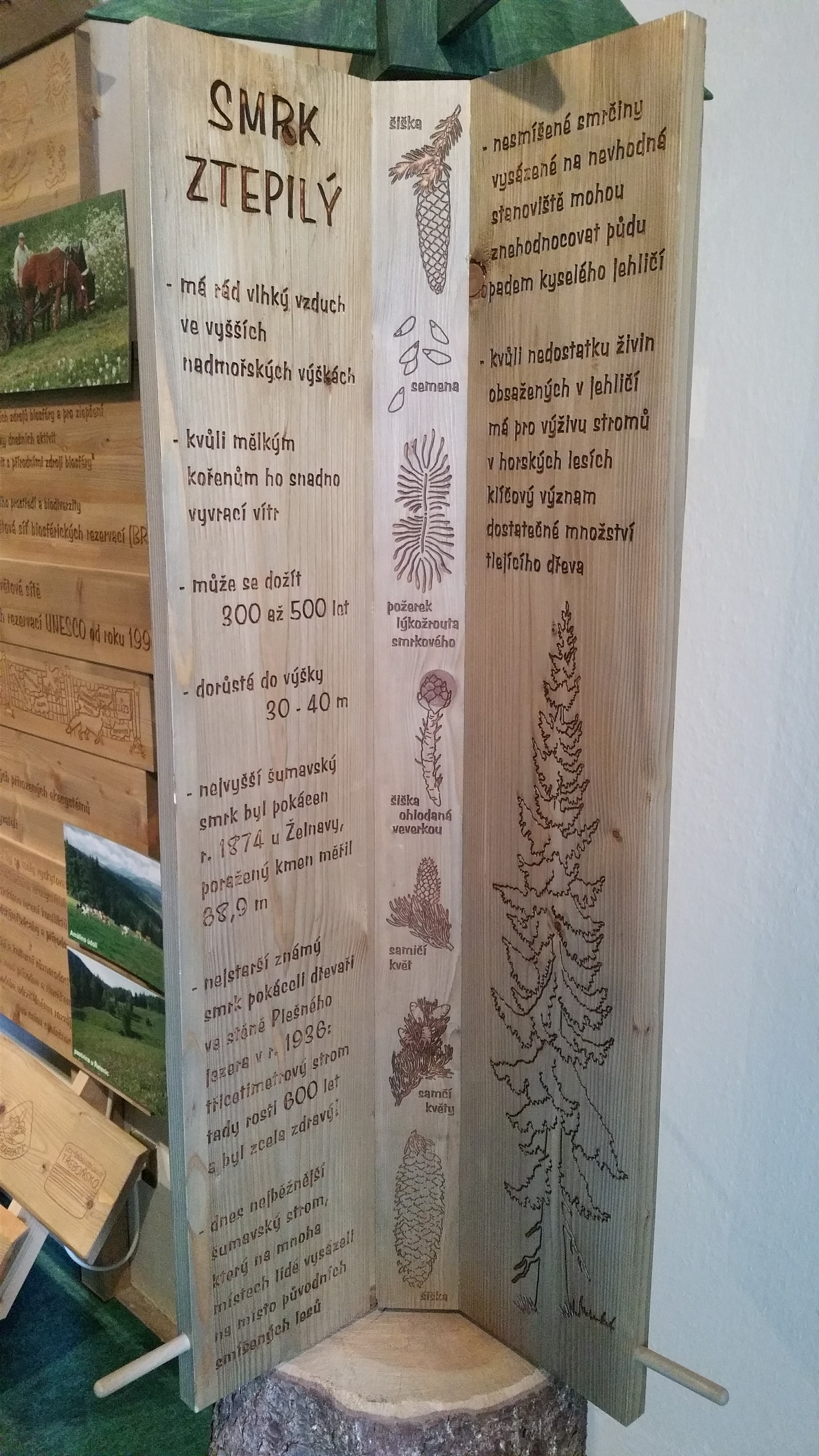 Museum of Vimperk - Šumava nature